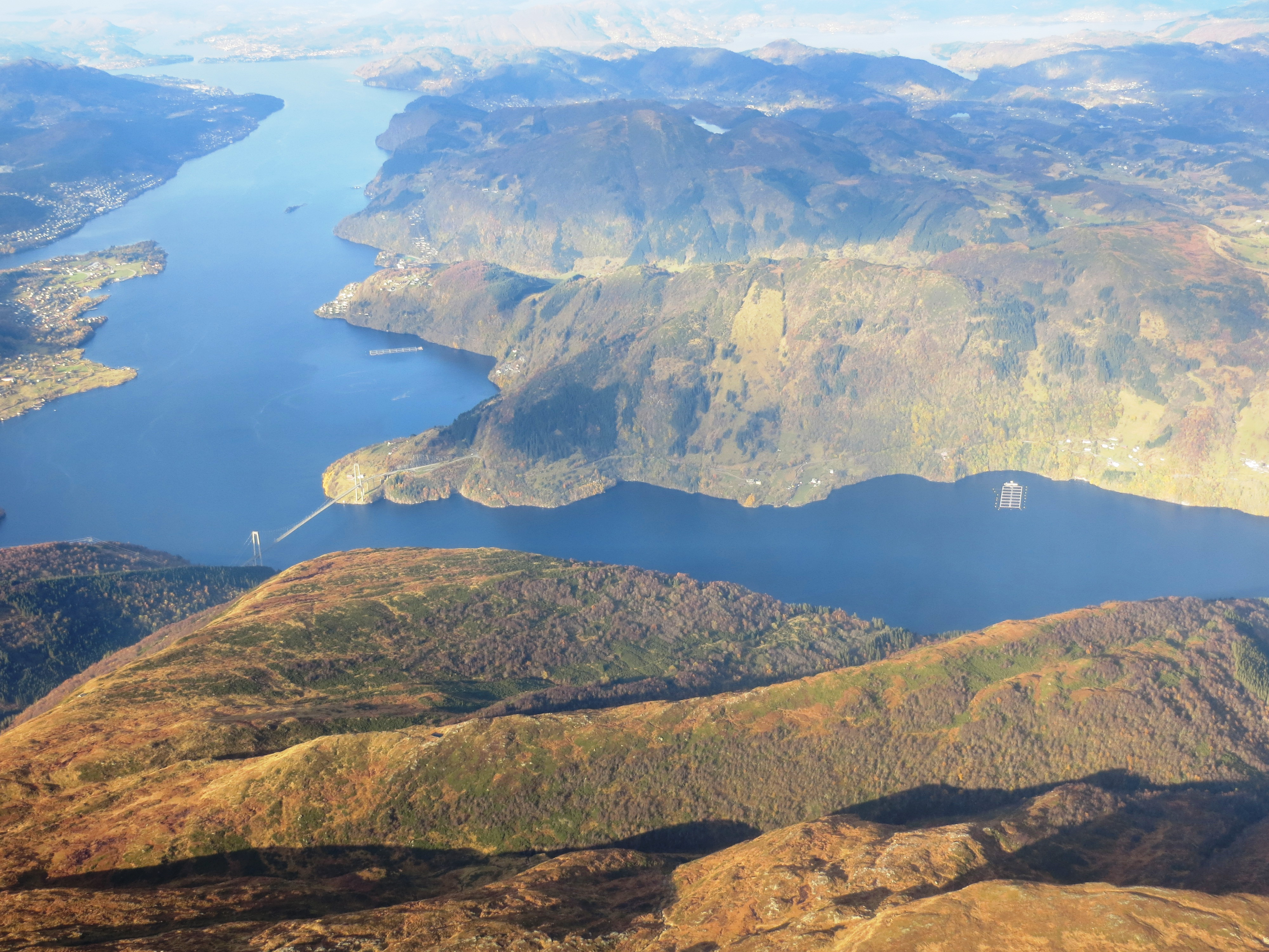 Aerial view of Osterøy, from the south towards the north. Northeast of Bergen, Hordaland (west Norway). The fjord is named Sørfjorden.